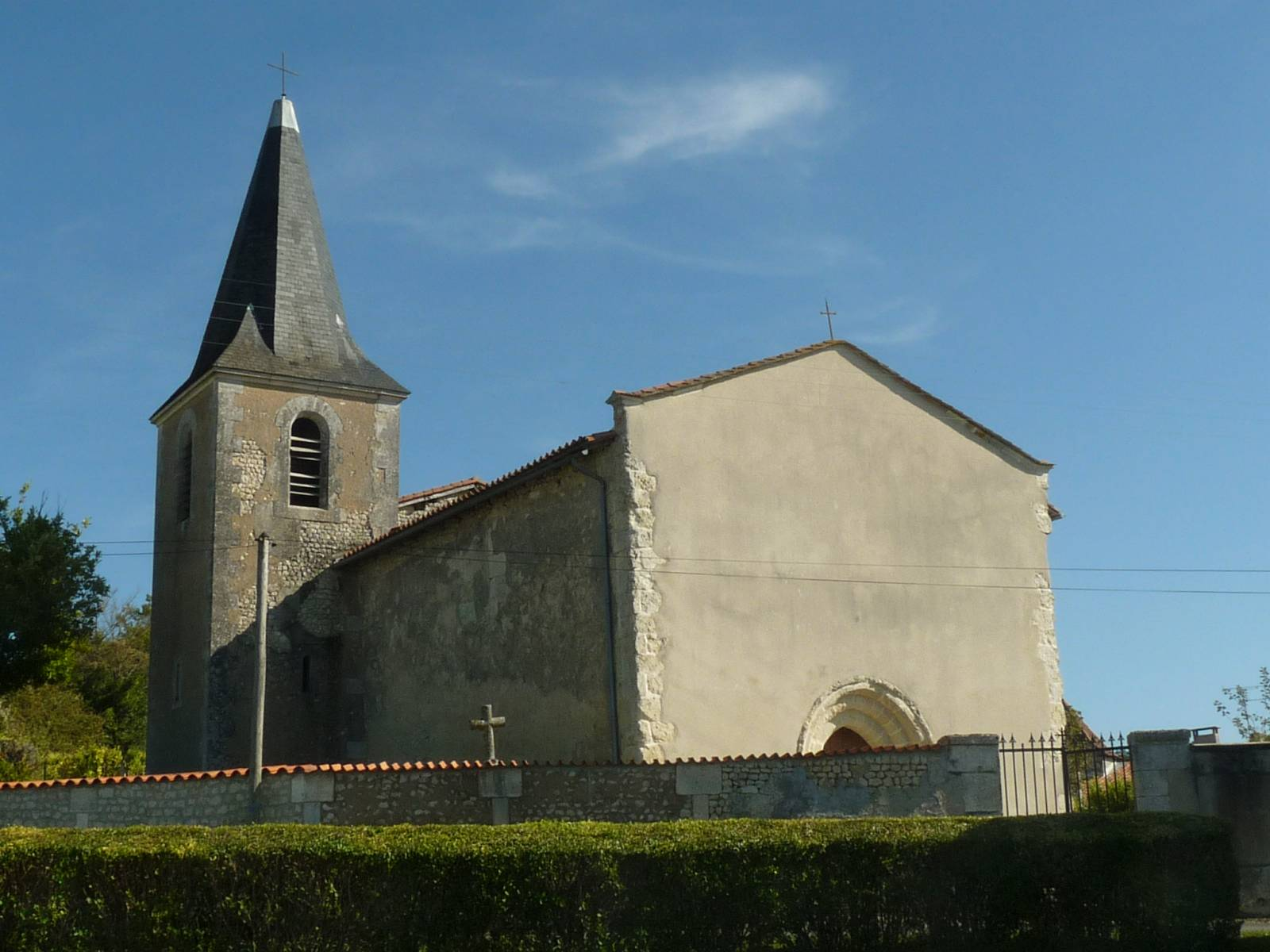 church